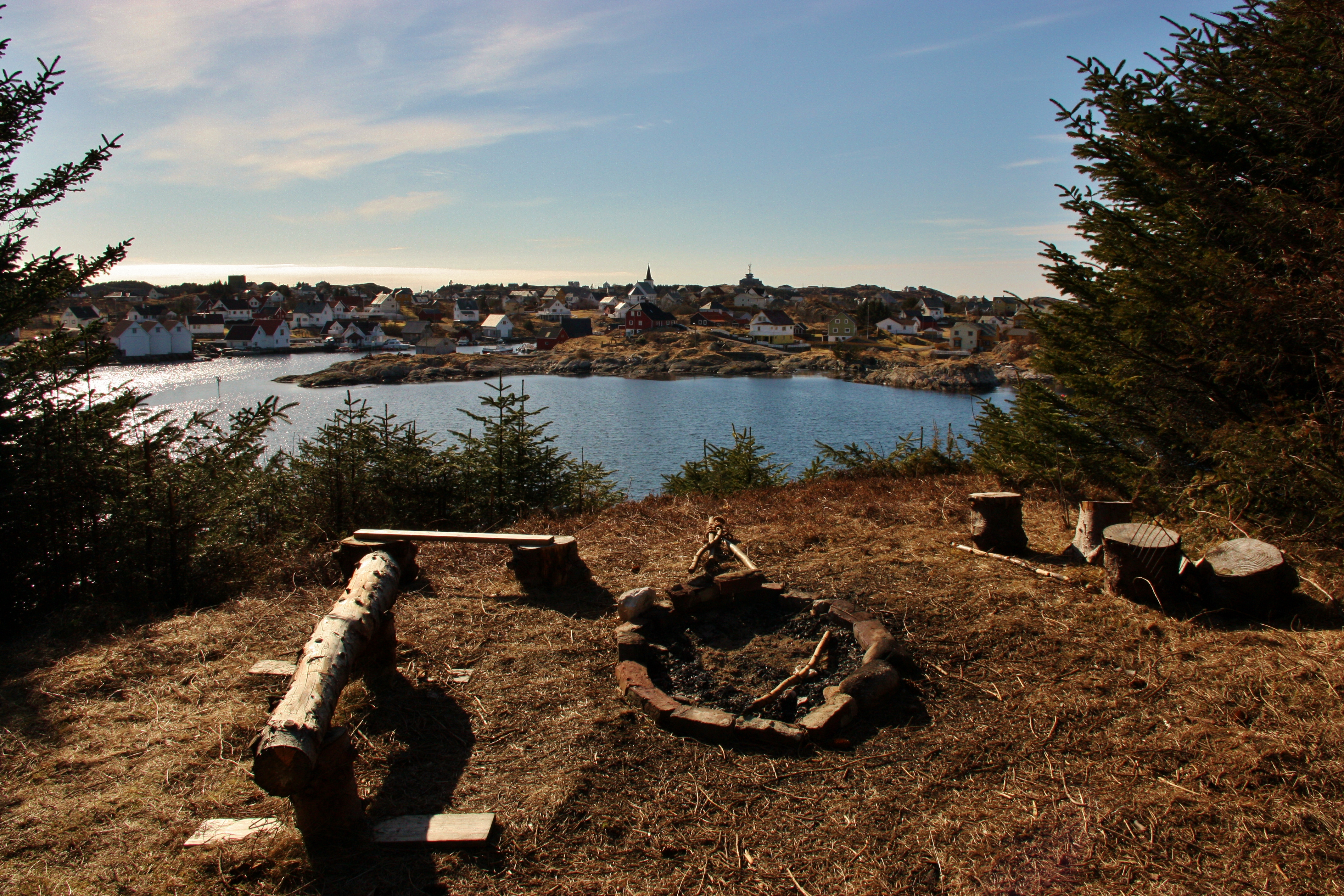 Rognsvågen in Fedje